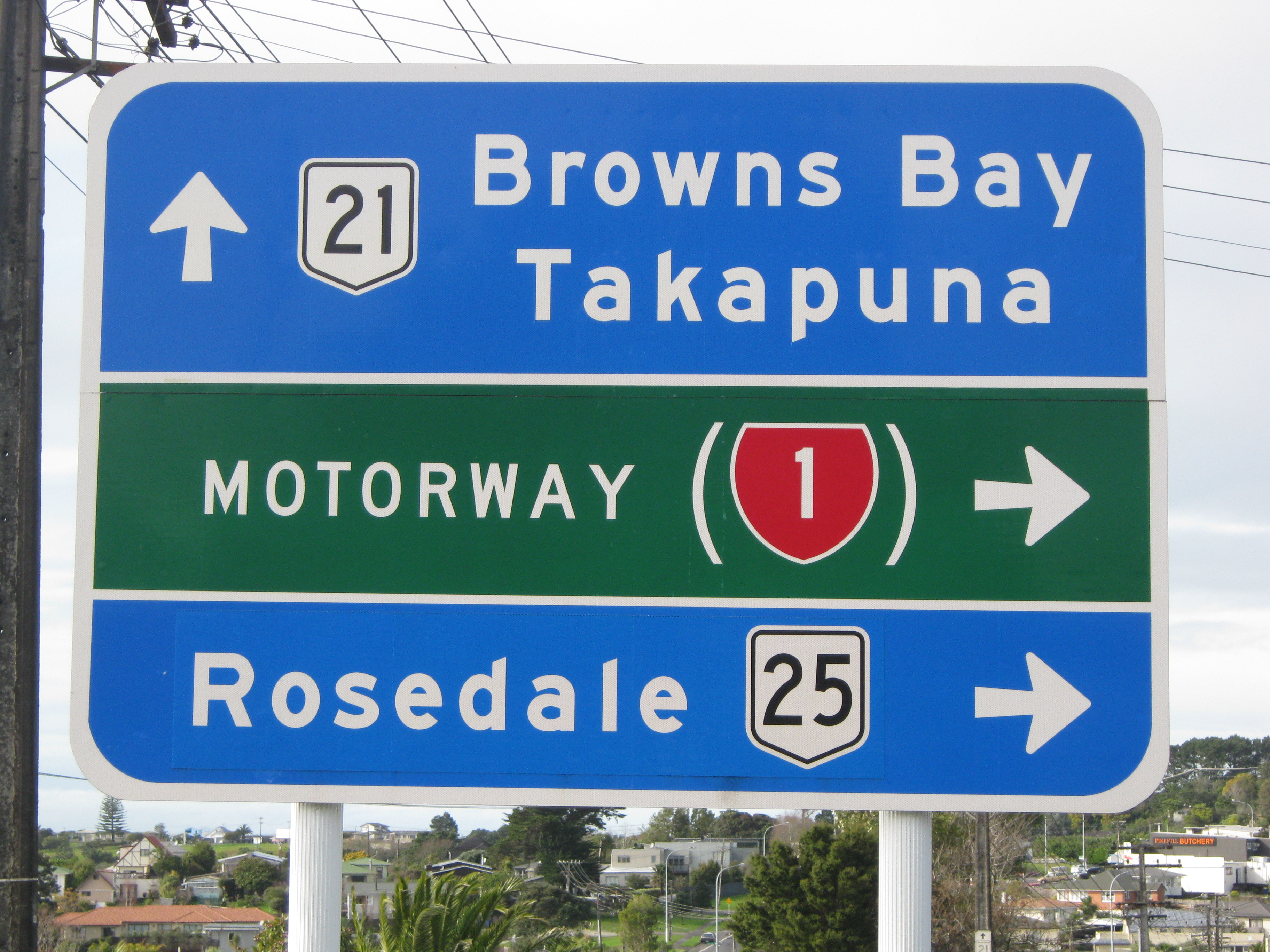 An advance direction sign on East Coast Road in Auckland, New Zealand.